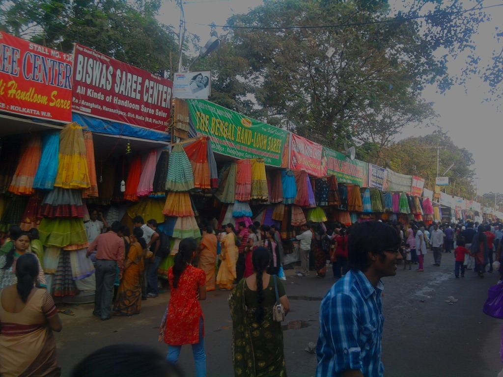 Numaish